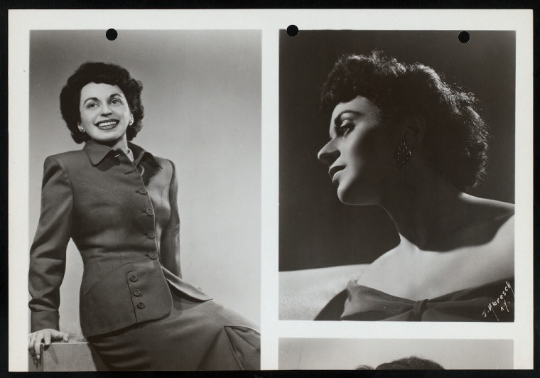 Headshot of Bernice Loren